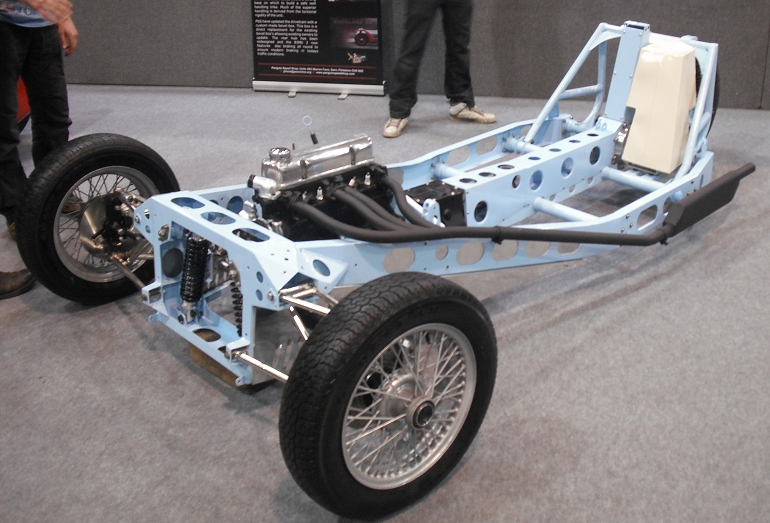 3 wheels chassis